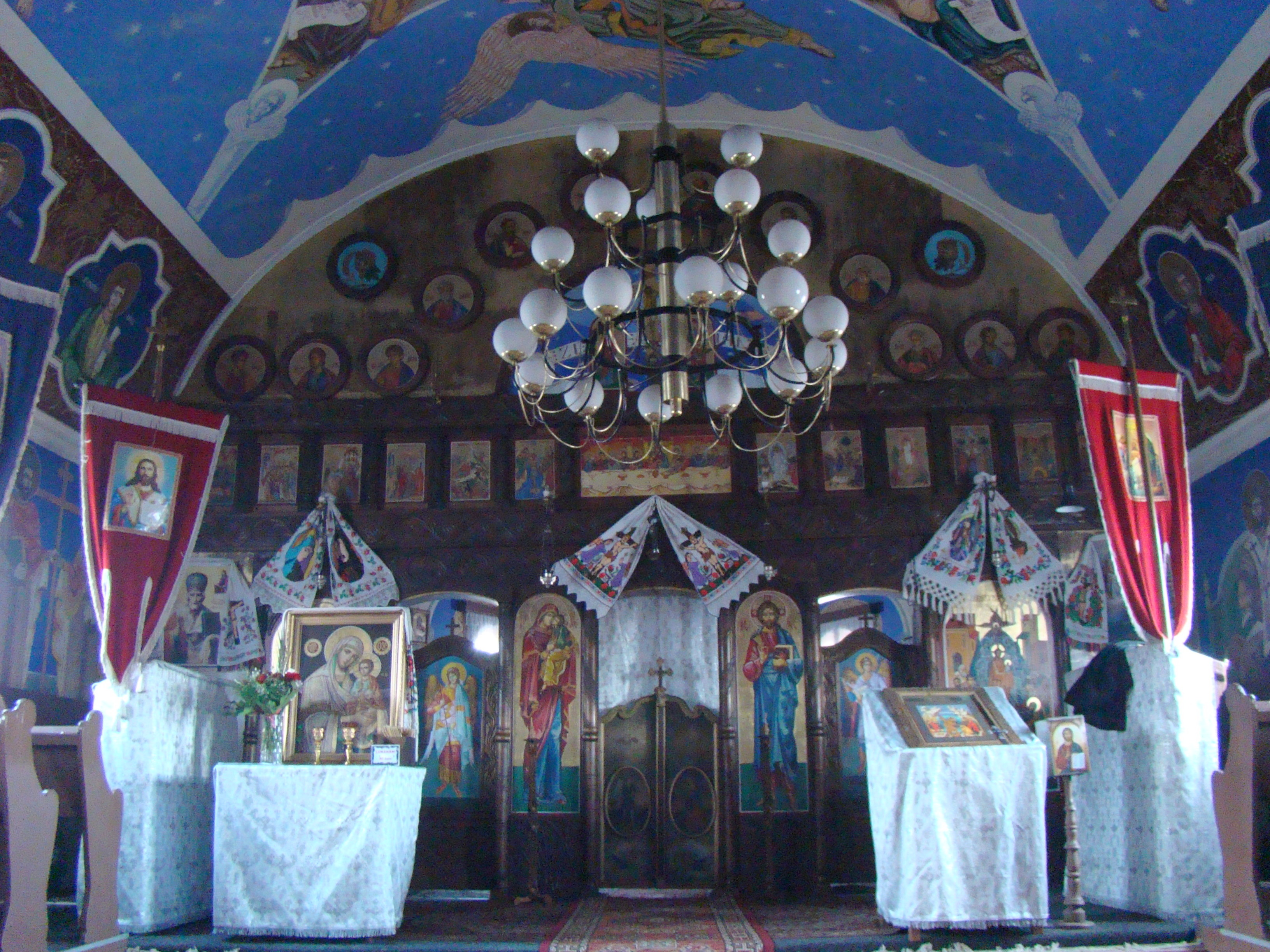 Filea de Jos, Cluj county, Romania